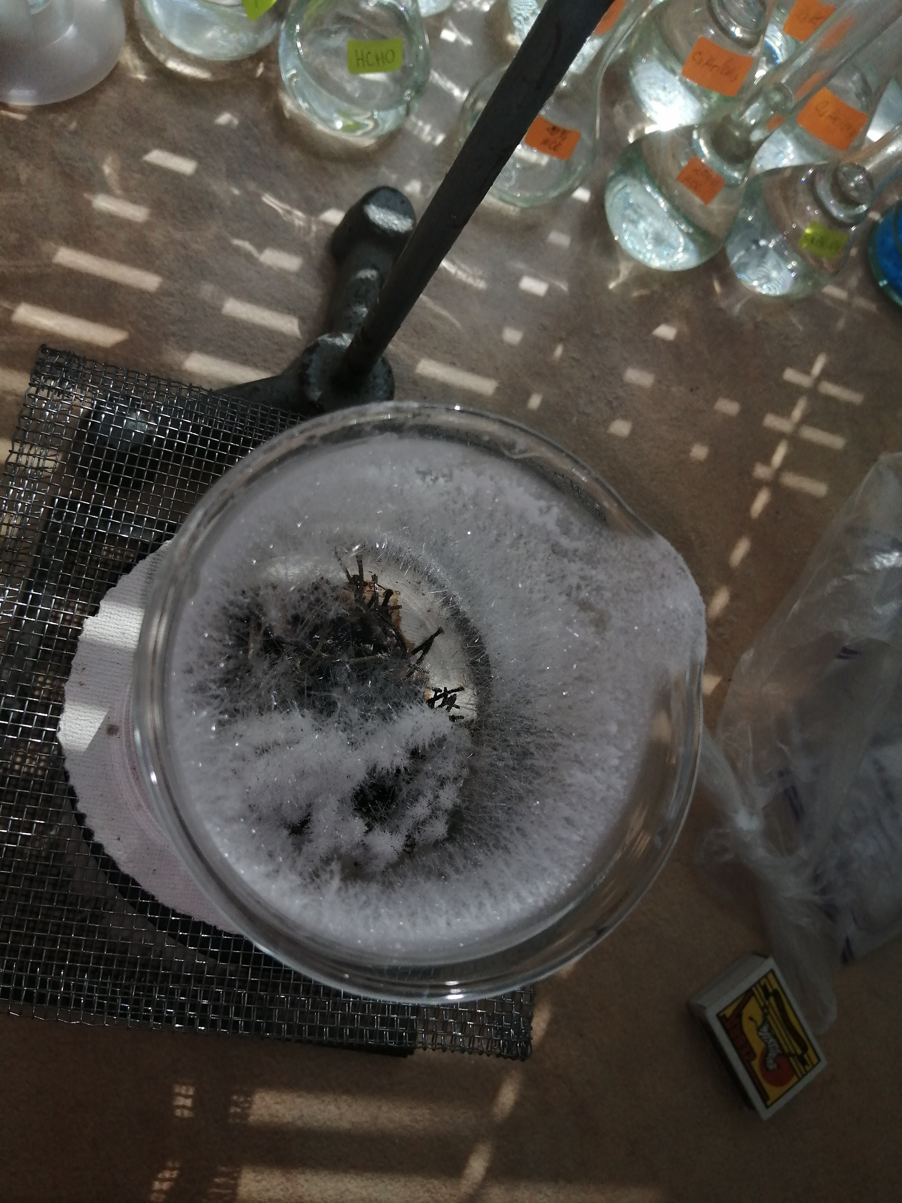 Sublimation of Benzoic acid